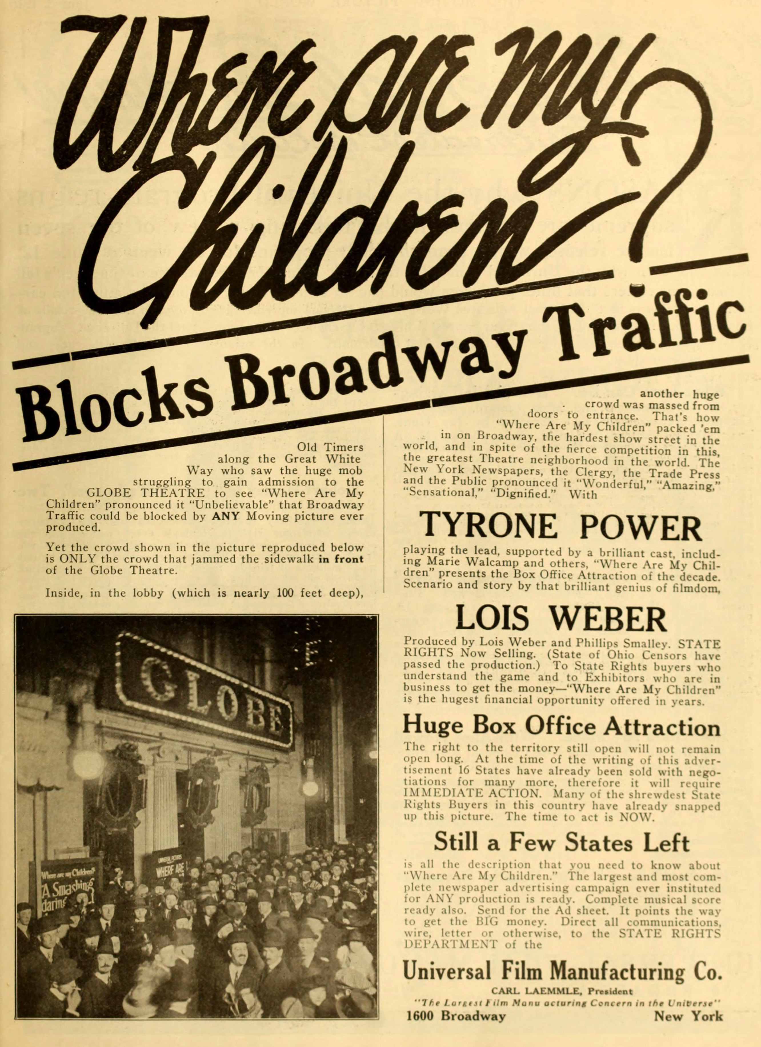 Advertisement in The Moving Picture World for the American drama film Where Are My Children? (1916).